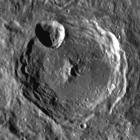 Hahn lunar crater - LROC image. Prominent satellite F rests at NW rim; there are several pools of melt at west and north sectors of the crater´s floor.